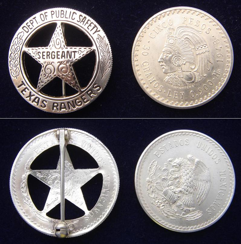 TEXAS RANGERS current badge and MEXICAN coin